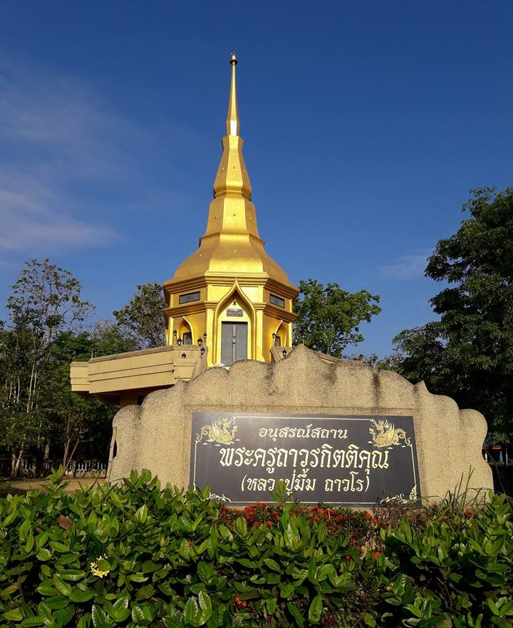 The Golden pagoda of Buangam; it was built as a memorial pagpda for Mum Thavaro (มึ้ม ถาวโร), the first abbot of Junthummawas Temple.